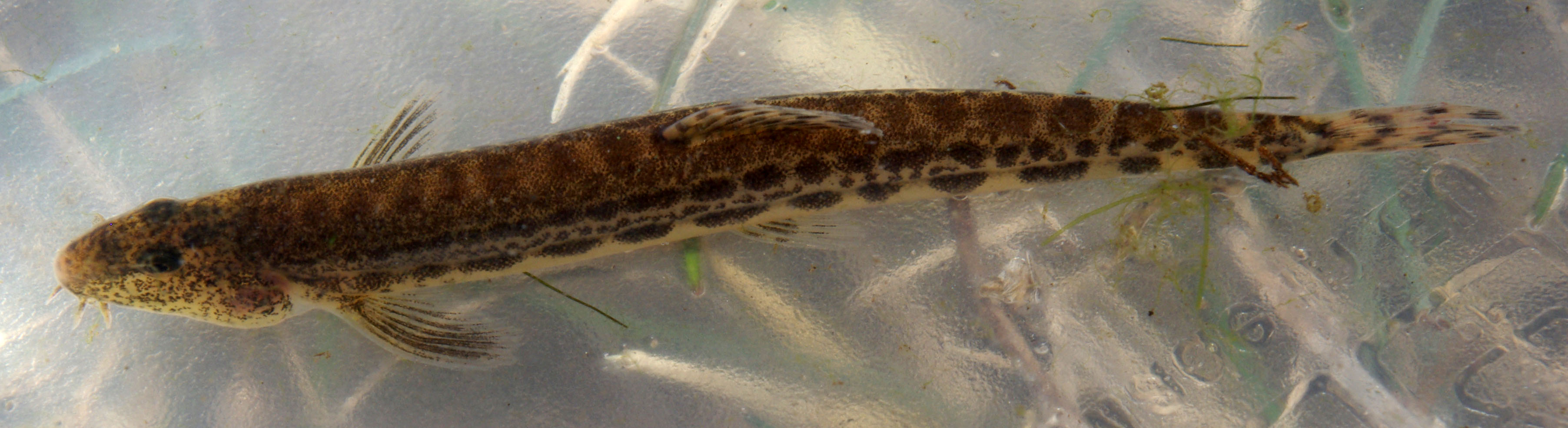 Cobitis paludica. River Douro, near Hinojosa de la Sierra, Soria (Spain)